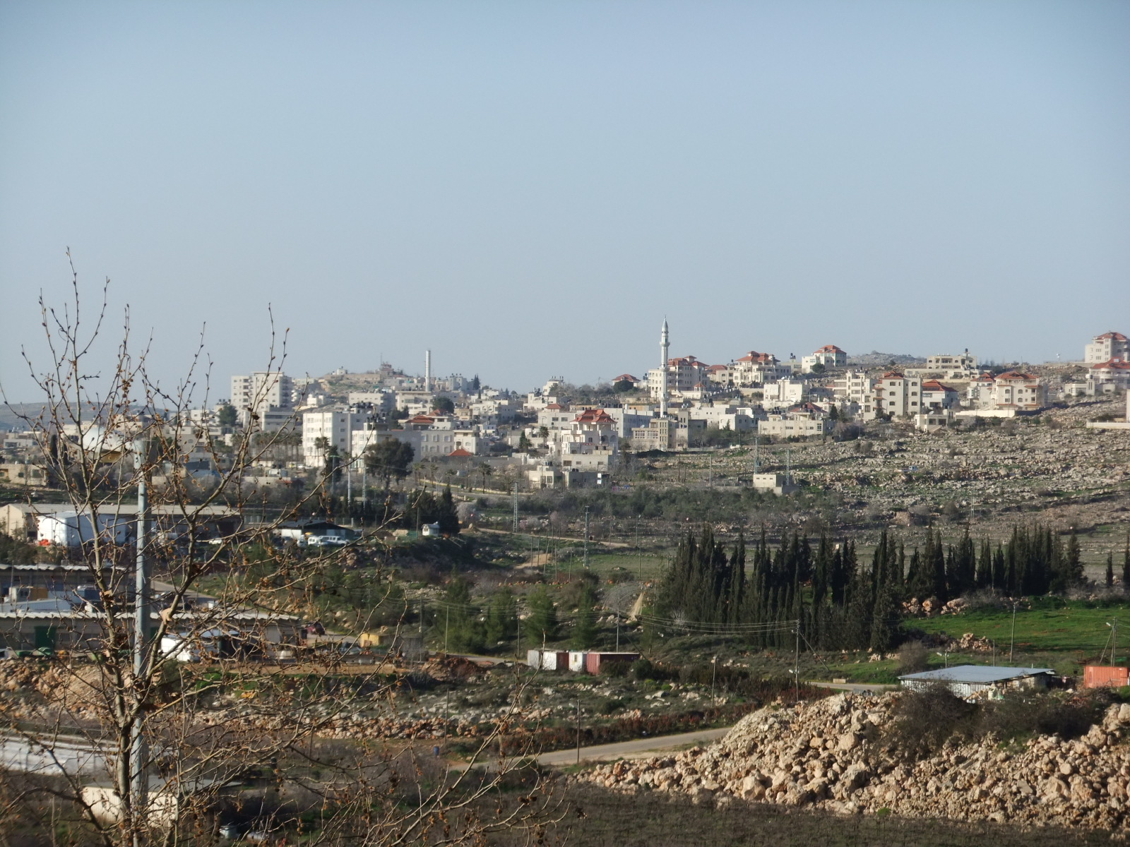 Silwad from Ofra